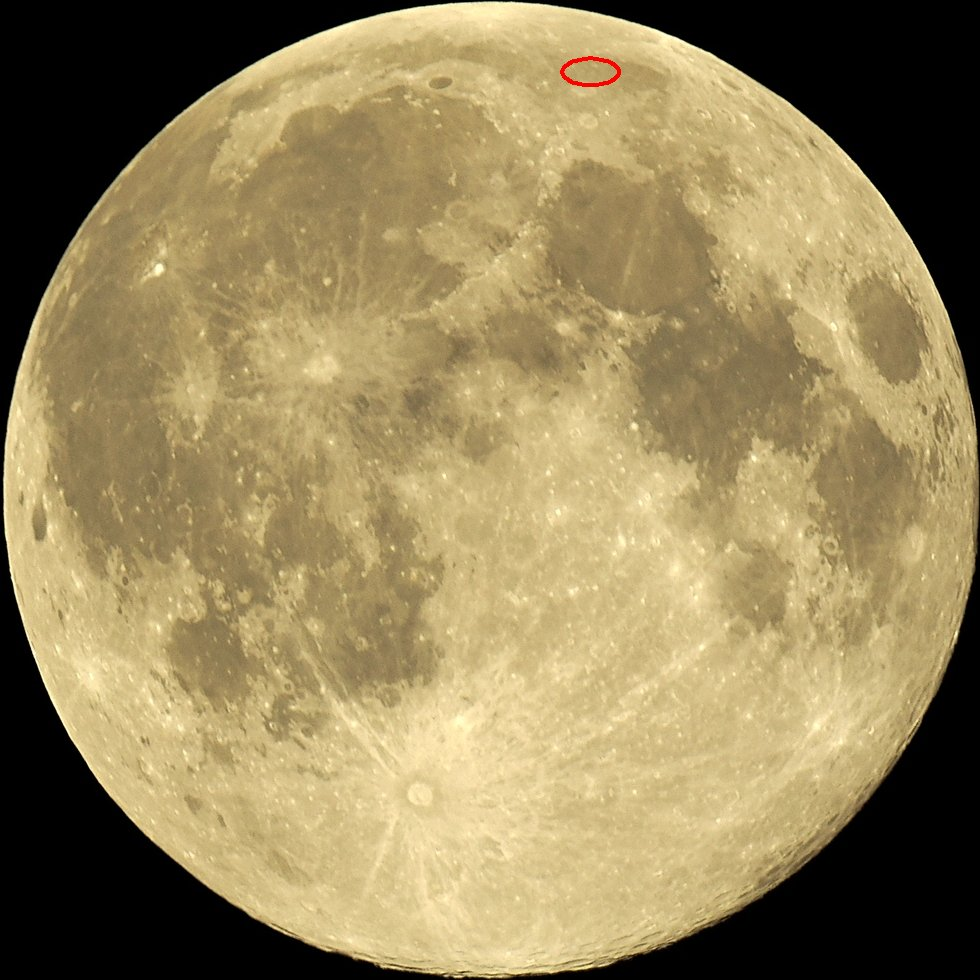 Location of crater Galle on the Moon